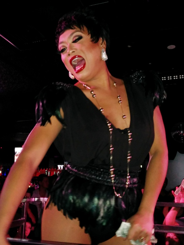 Jujubee performing "Heart Attack" (White Sea remix) by Demi Lovato at the Café in San Francisco, California, United States.